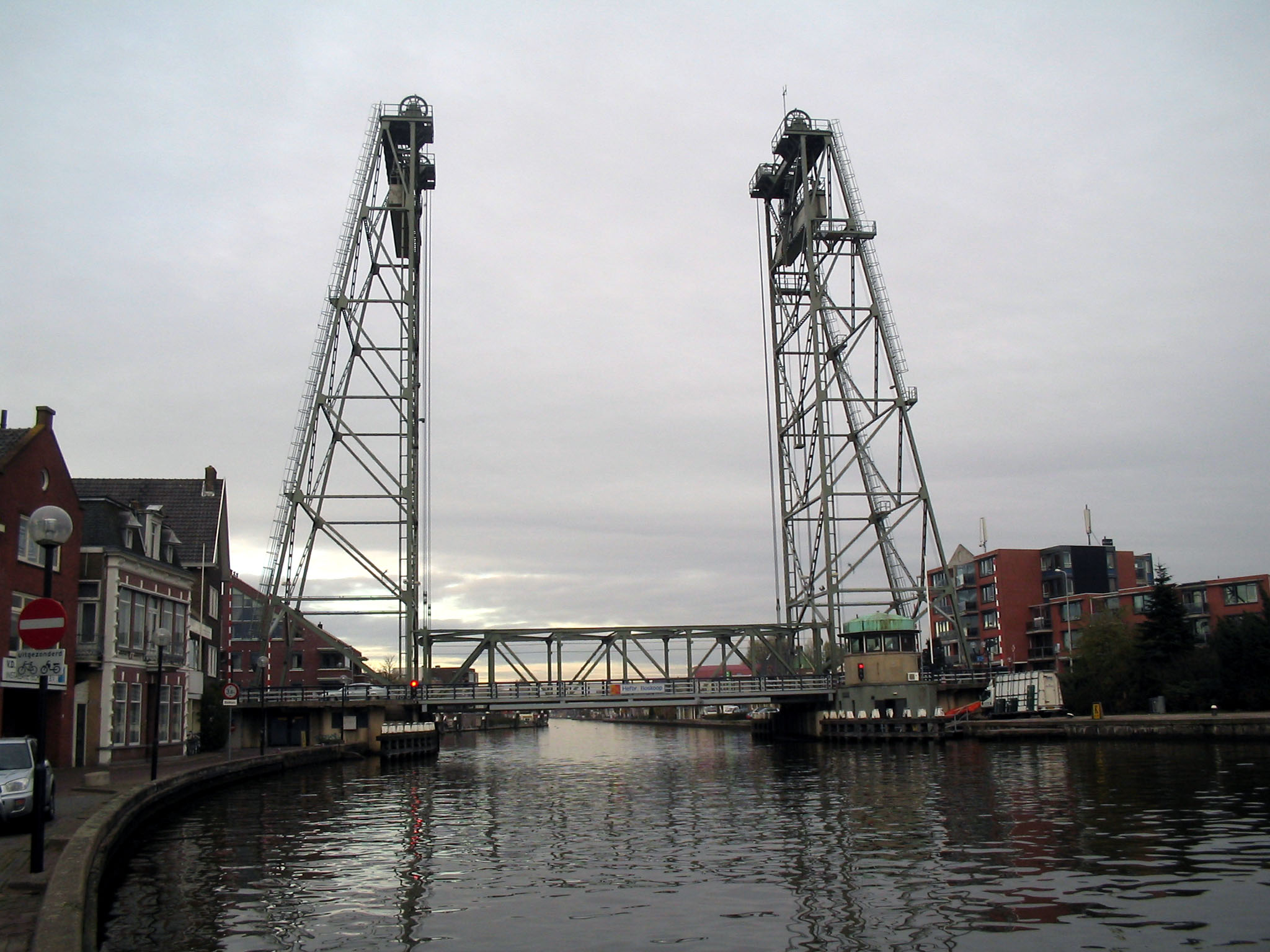 Vertical-lift bridge in Boskoop, Netherlands